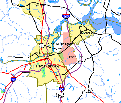 Image created by User:MPS using TIGER MAPS Tool of the Us Census Bureau